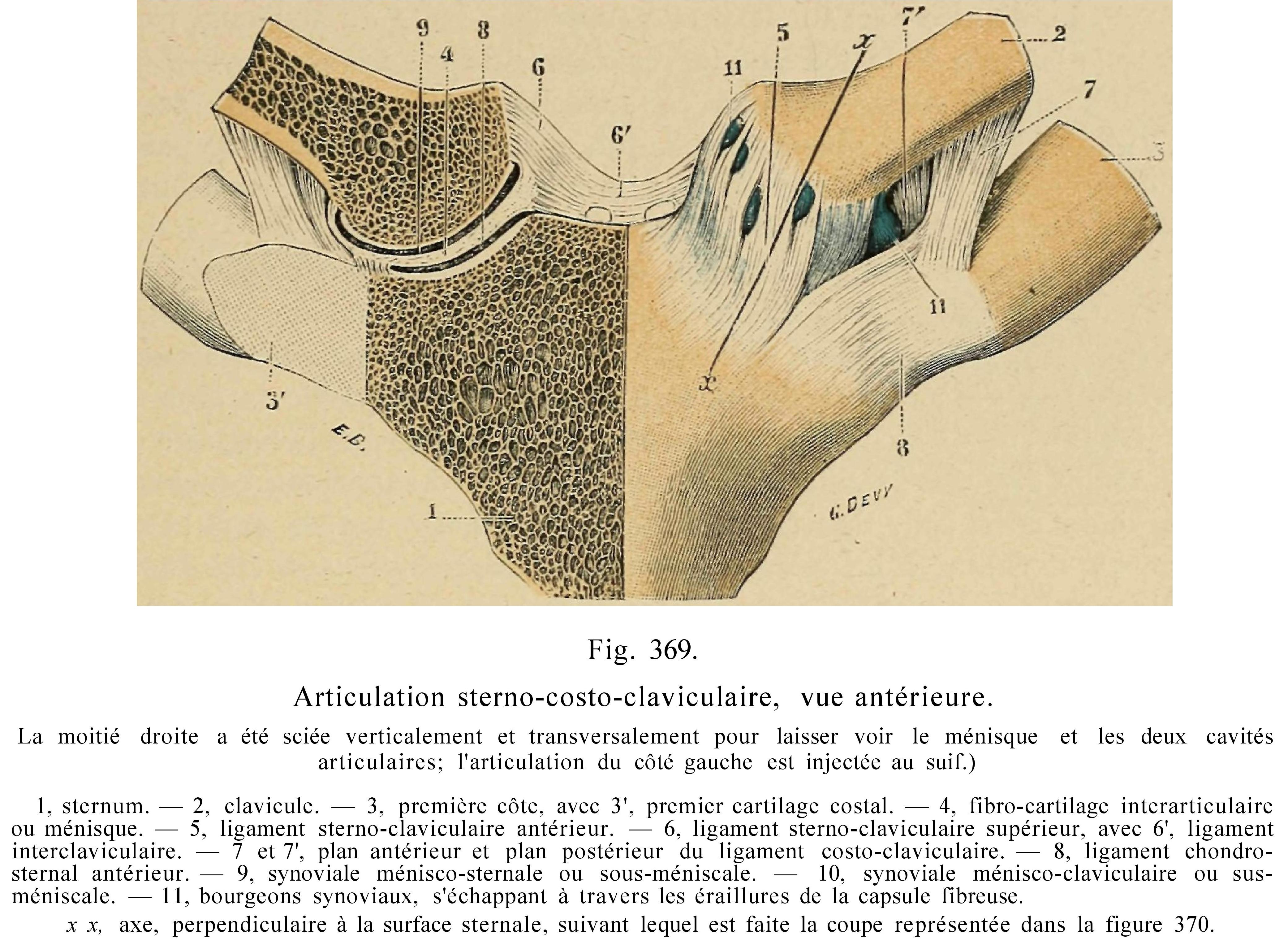 Sternoclavicular joint. Anterior view (Testut).